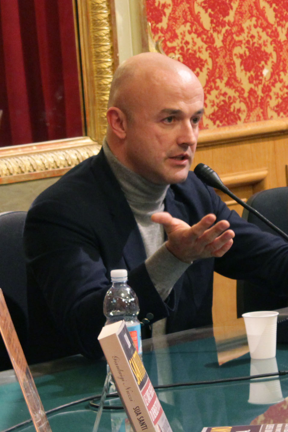 Italian journalist Gianluigi Nuzzi in Savona